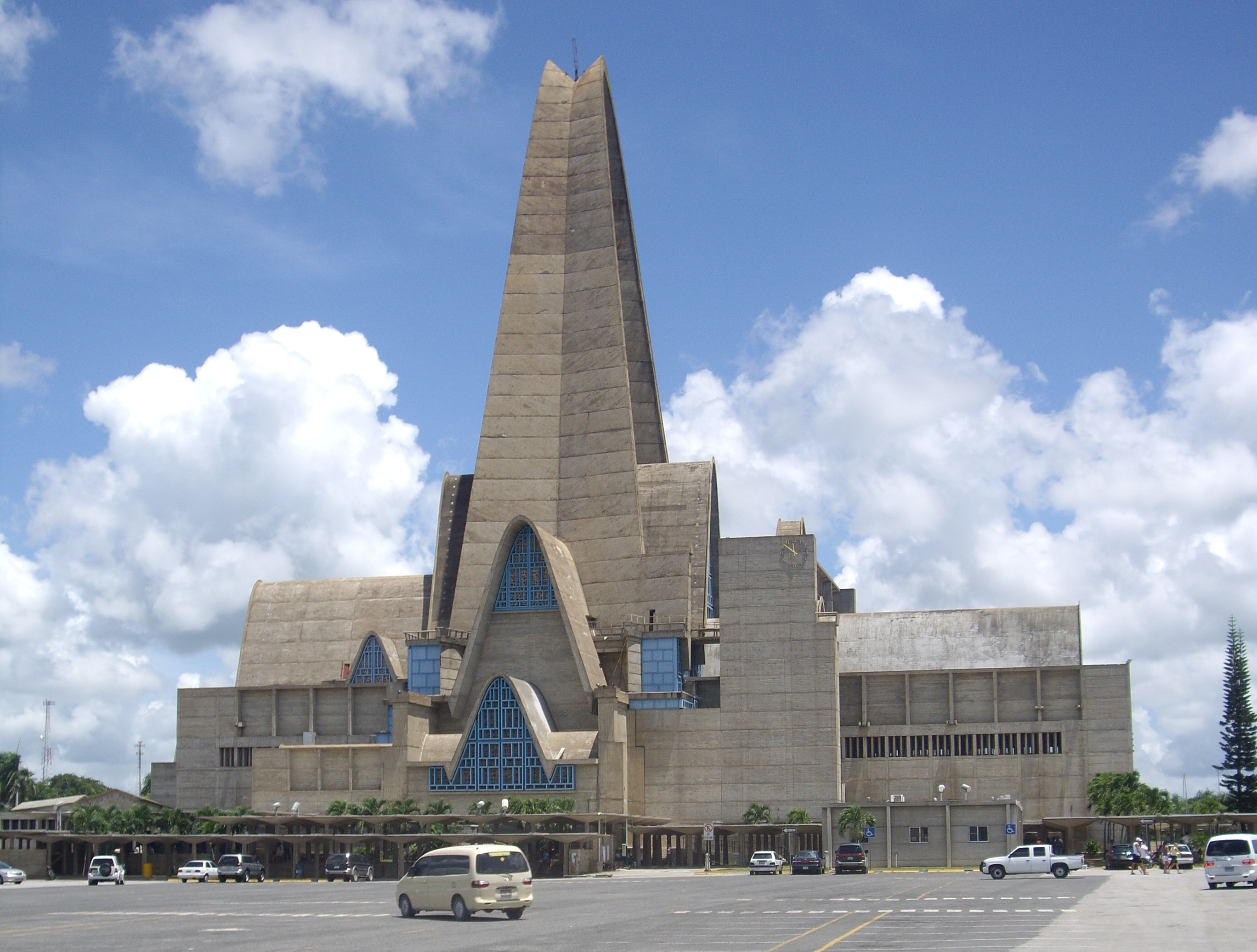 The picture shows the Basílica de Nuestra Señora de la Altagracia in Salvaleón de Higüey in the Dominican Republic.